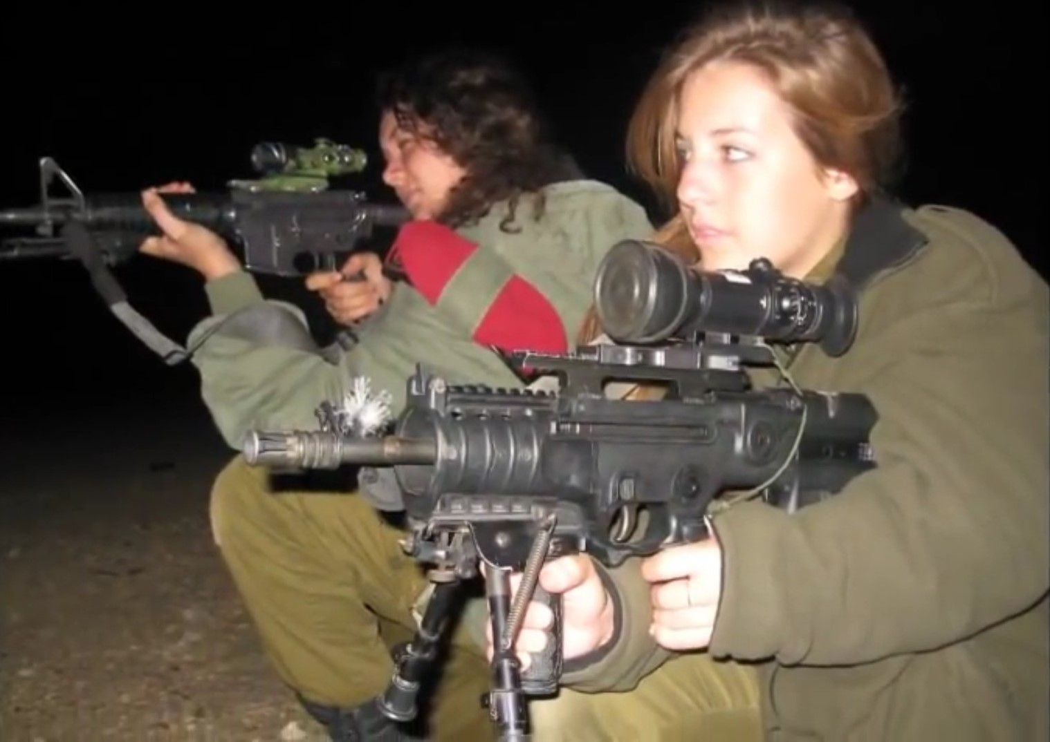 Special Warrant officer course in Israel Defense Forces